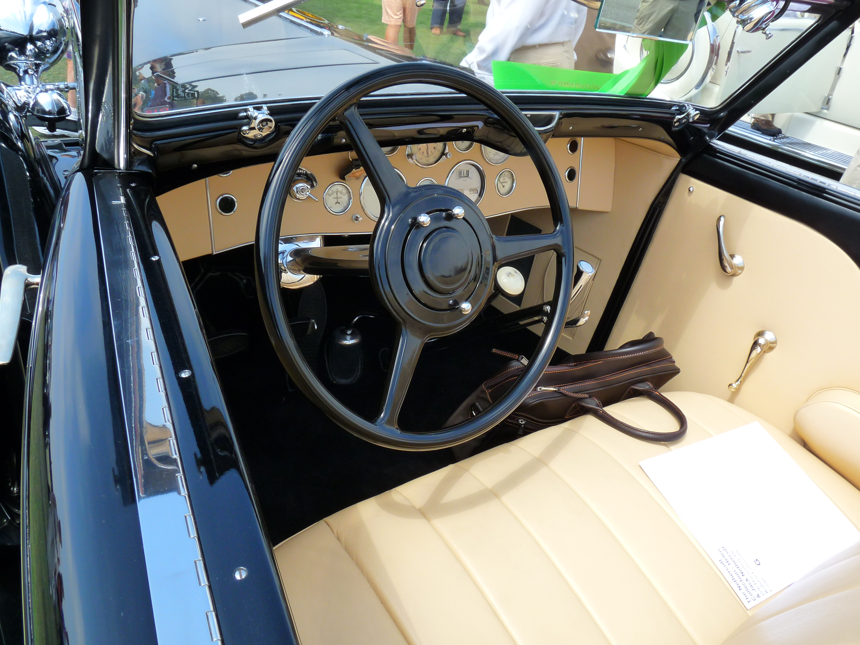 1936 Duesenberg JN Rollston Convertible Coupe